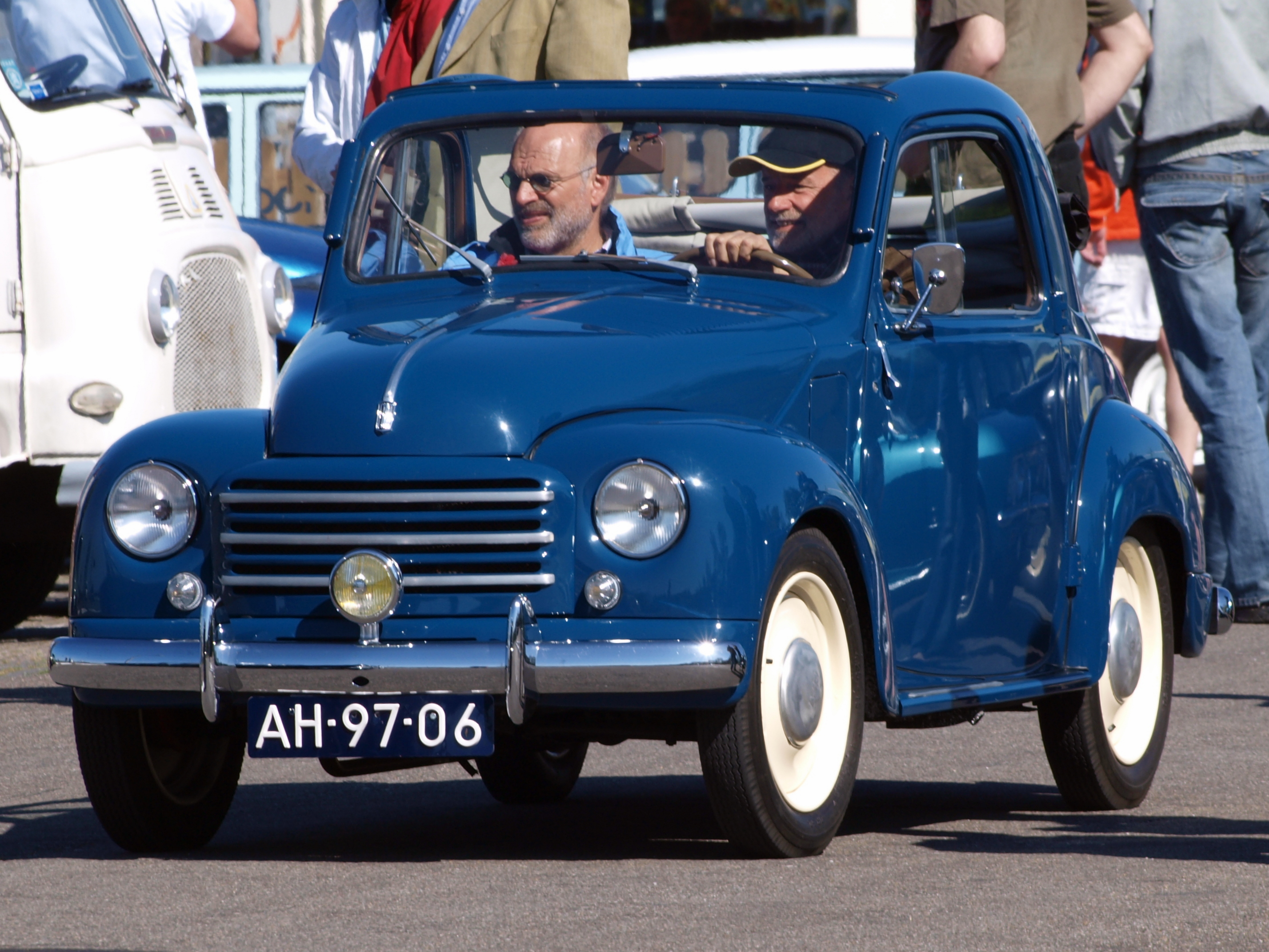 Photographed at Valkenburg, The Netherlands